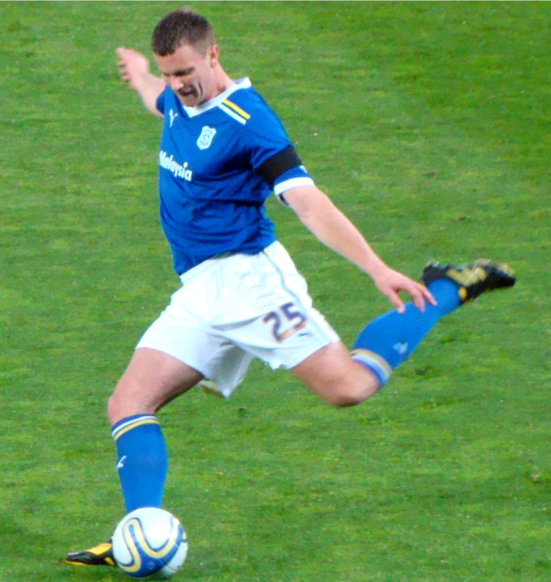 Ben Turner at Cardiff v Derby, Championship, Cardiff City Stadium, Cardiff, Wales, 2012-04-17.